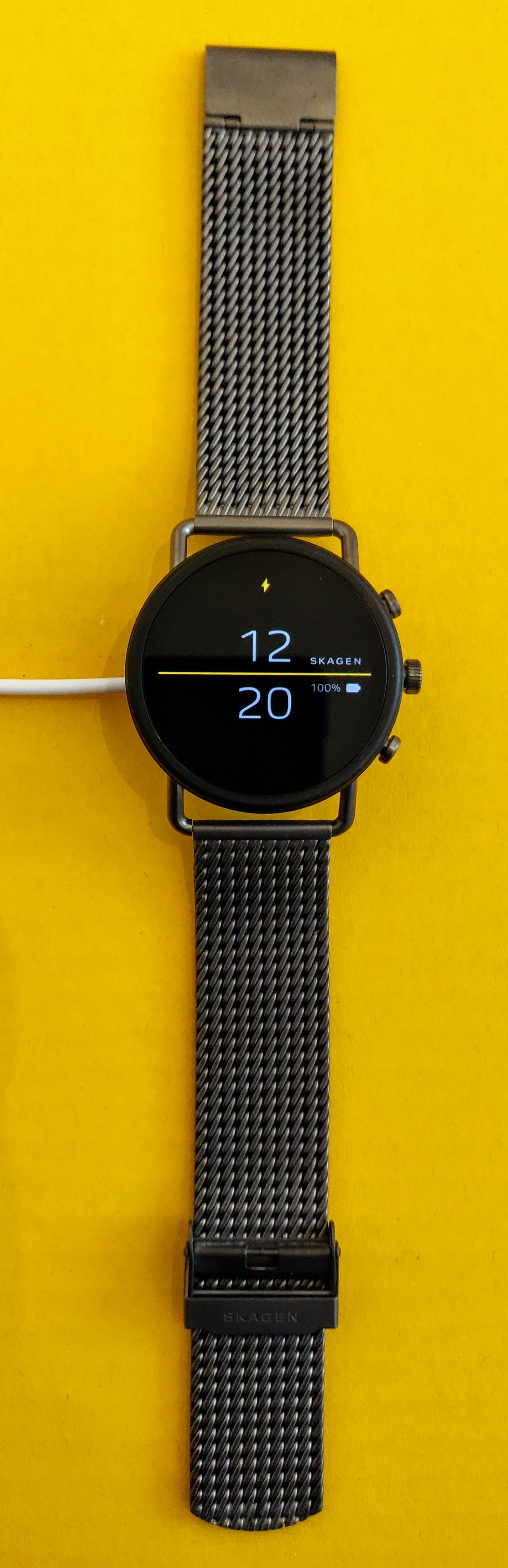 Smartwatch "Skagen Falster 3" on the charging tray. At the time of recording the watch was fully charged.